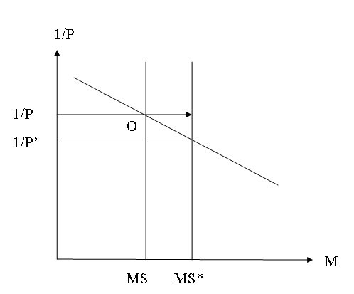 Diagram to accompany explanation commentary on Inflationary monetary-disequilibrium.